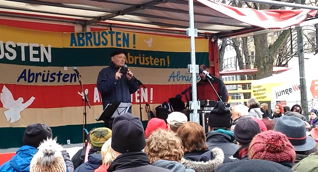 Eugen Drewermann speaks at the final rally of the Ostermarsch in Berlin, Turmstraße, March 2018, one day before Sunday of Easter 2018.